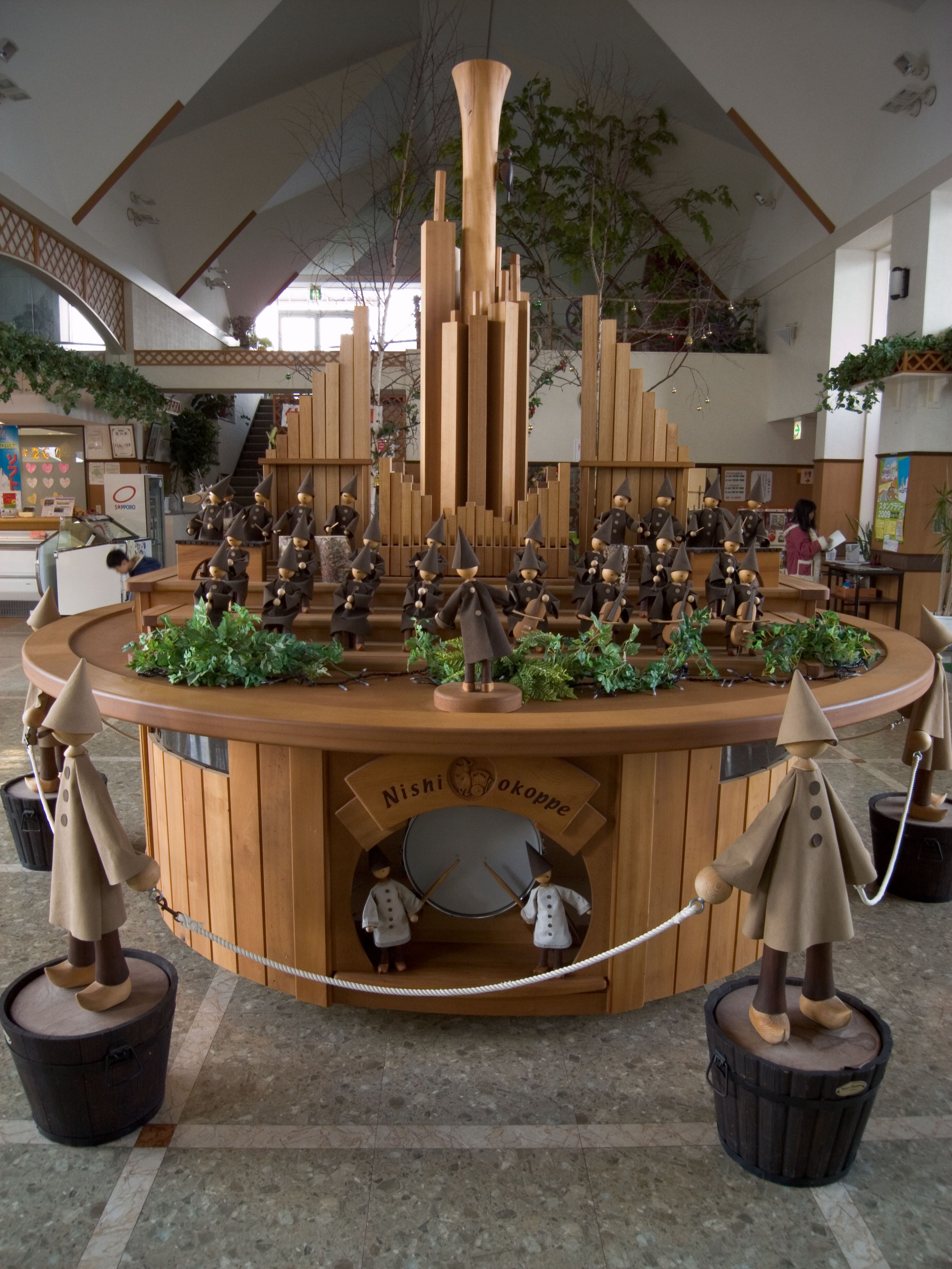 Organ in roadside station Nishiokoppe Kamu, Nishi-Okoppe, Hokkaido, Japan